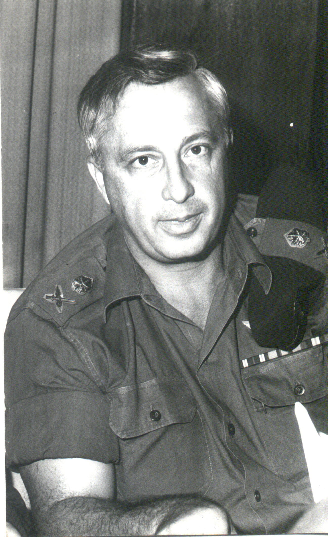 Ci-Club